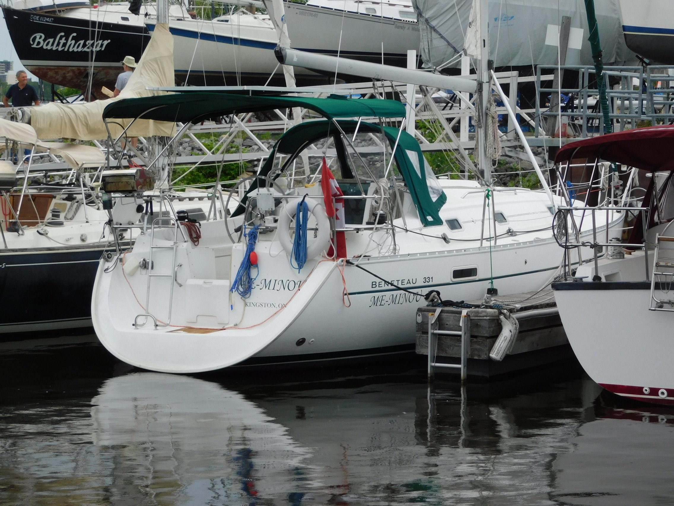 A Beneteau 331 sailboat named Me Minou.